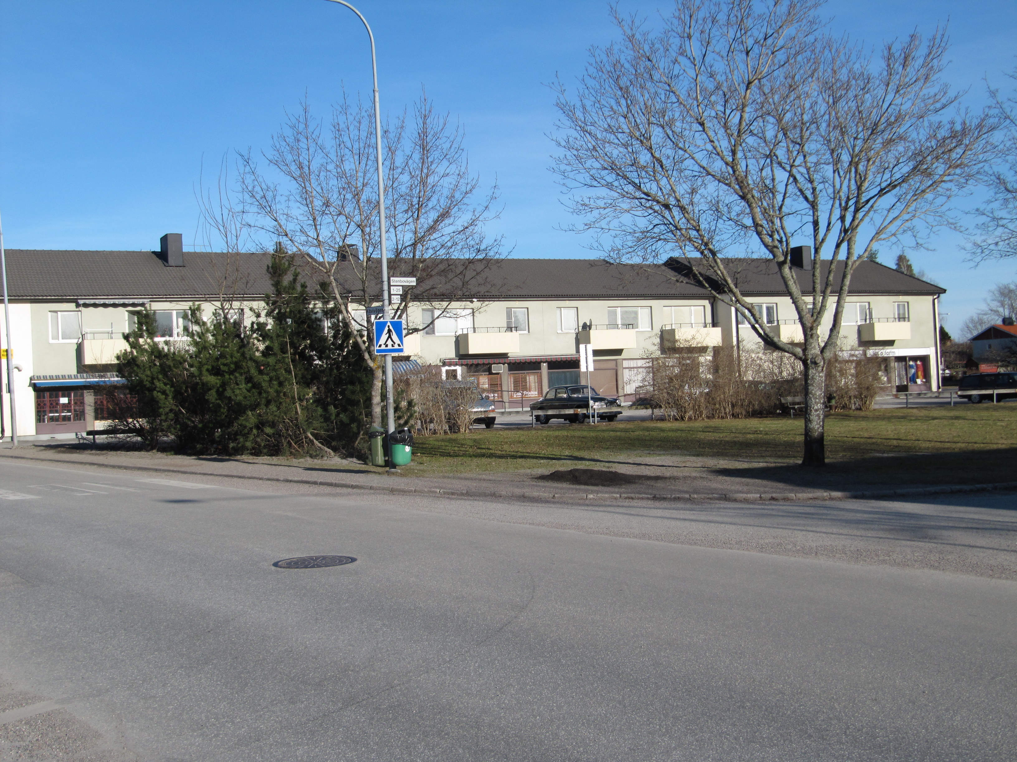 The square in Lillån, Örebro, Sweden